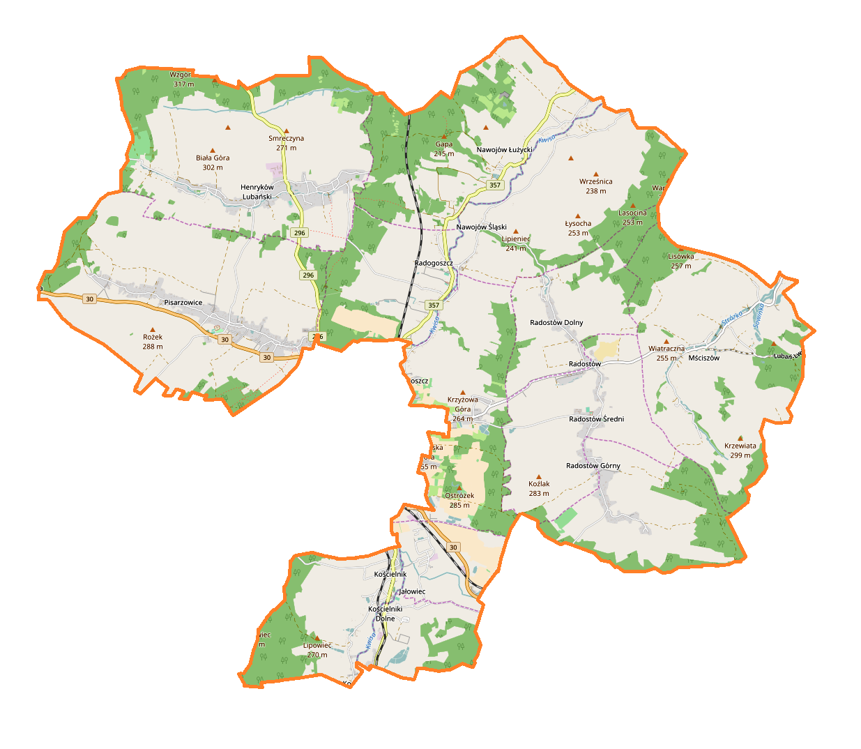 Location map